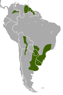 Lutrine Opossum, or Little Water Opossum (Lutreolina crassicaudata) range